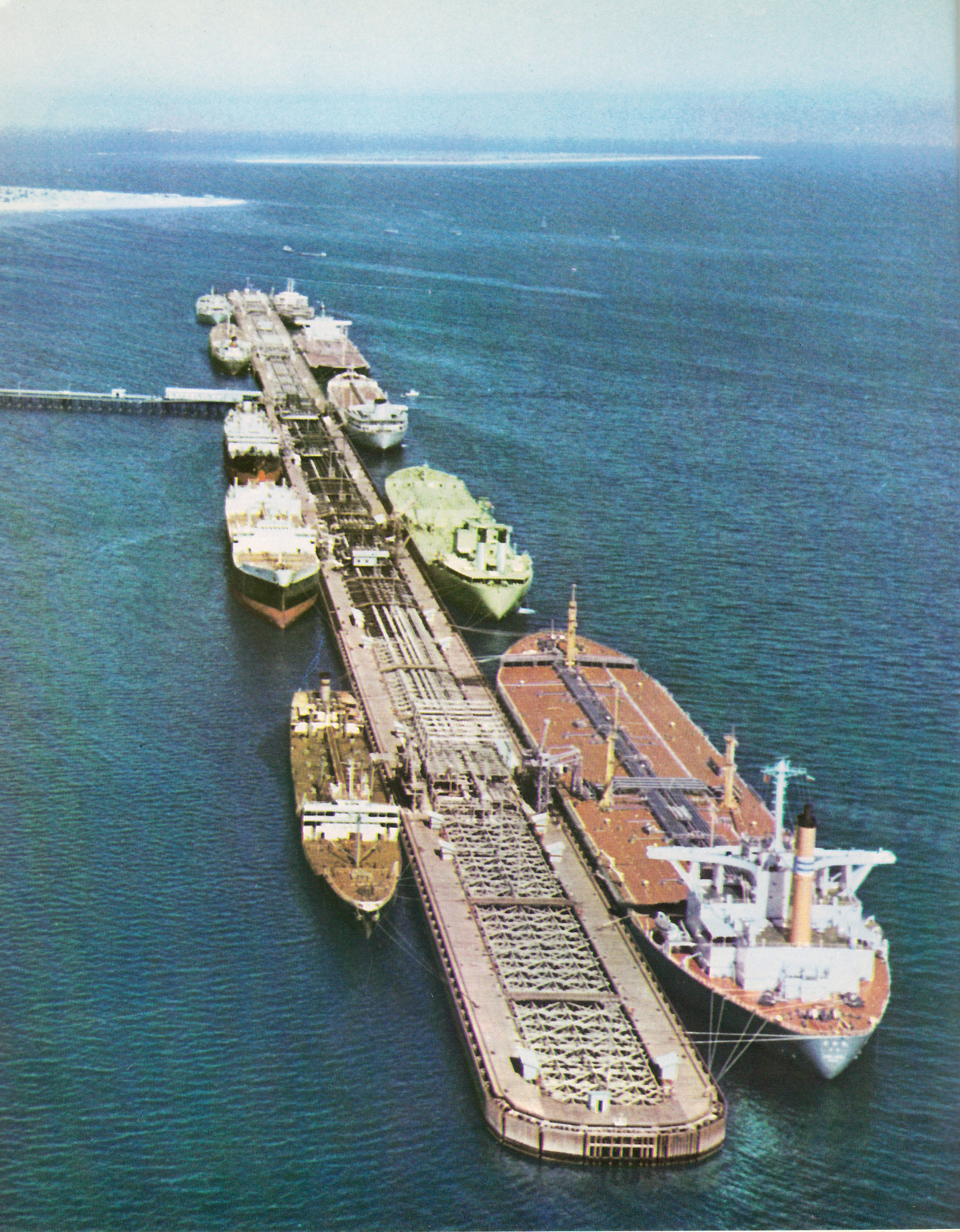 Large tankers loading at Kharg Terminal, offshore Persian Golf